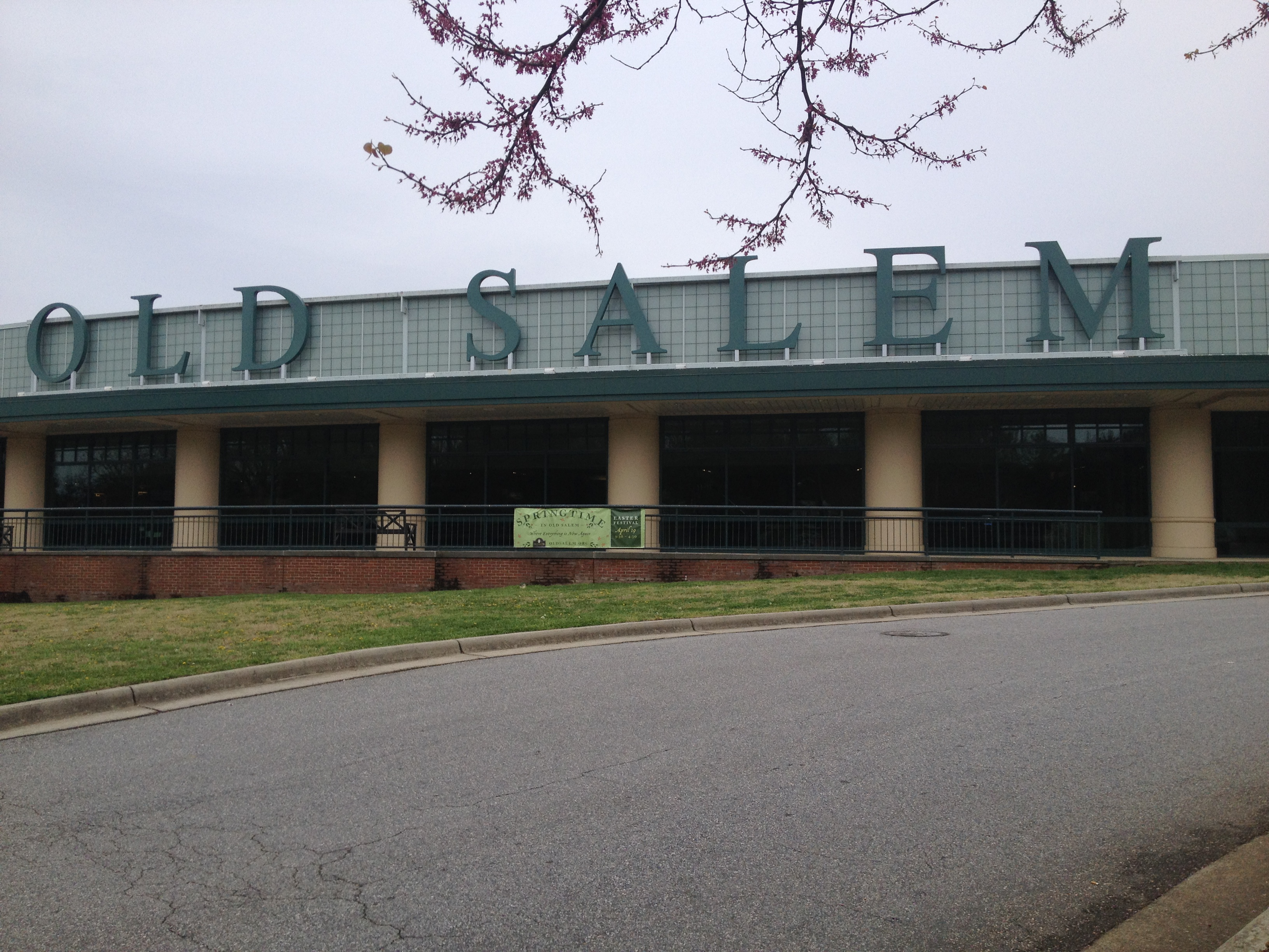 This is the outside of the visitation center